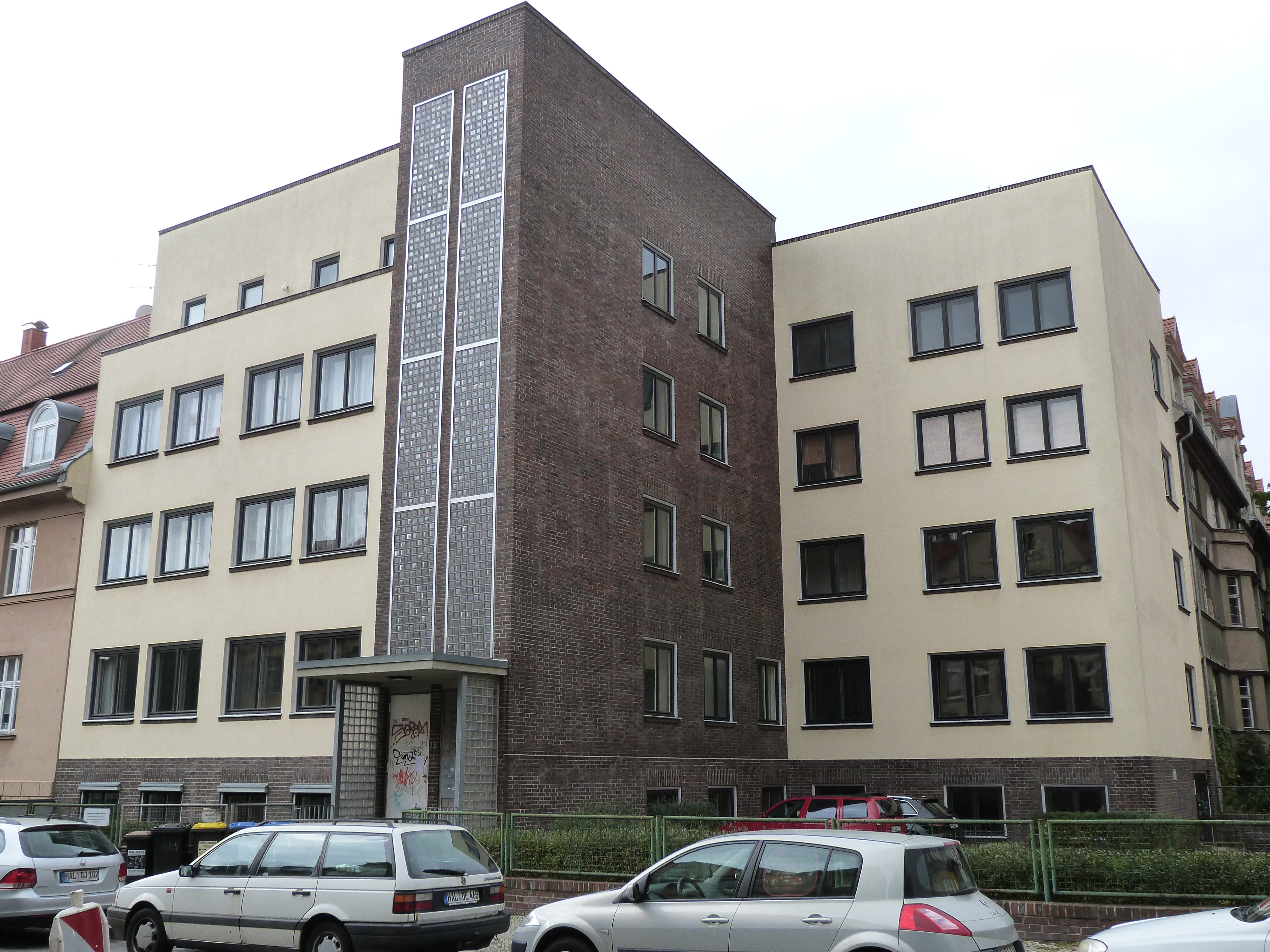 House No. 15 Clara-Zetkin-Strasse in Halle (Saale), built in 1927/28, administration building, architect: Martin Knauthe